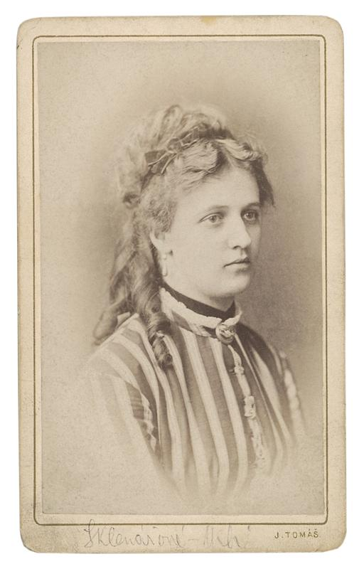 Czech actress Otilie Sklenářová-Malá, actress of National Theatre in Prague